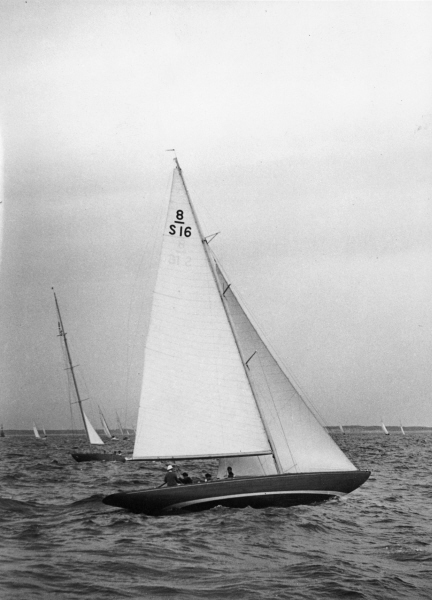 8mR-yacht, Ilderim II.